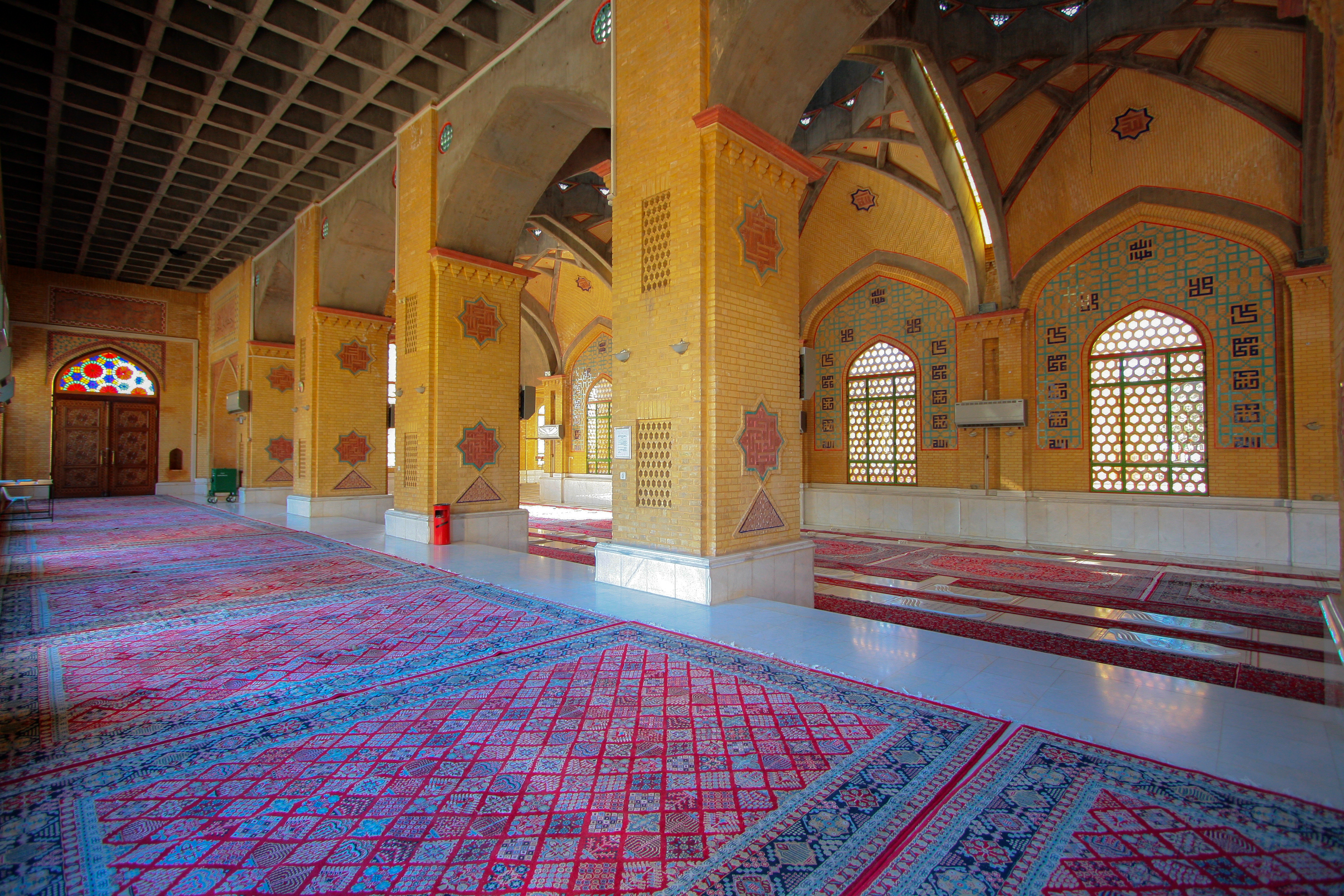 On 28 June 1981 in the Iranian calendar), a powerful bomb went off at the headquarters of the Iran Islamic Republic Party (IRP) in Tehran, while a meeting of party leaders was in progress.